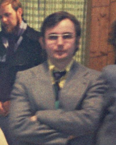 Karl-Heinz Huettemann, Dortmunder Schachtage 1974, Photographer Gerhard Hund.